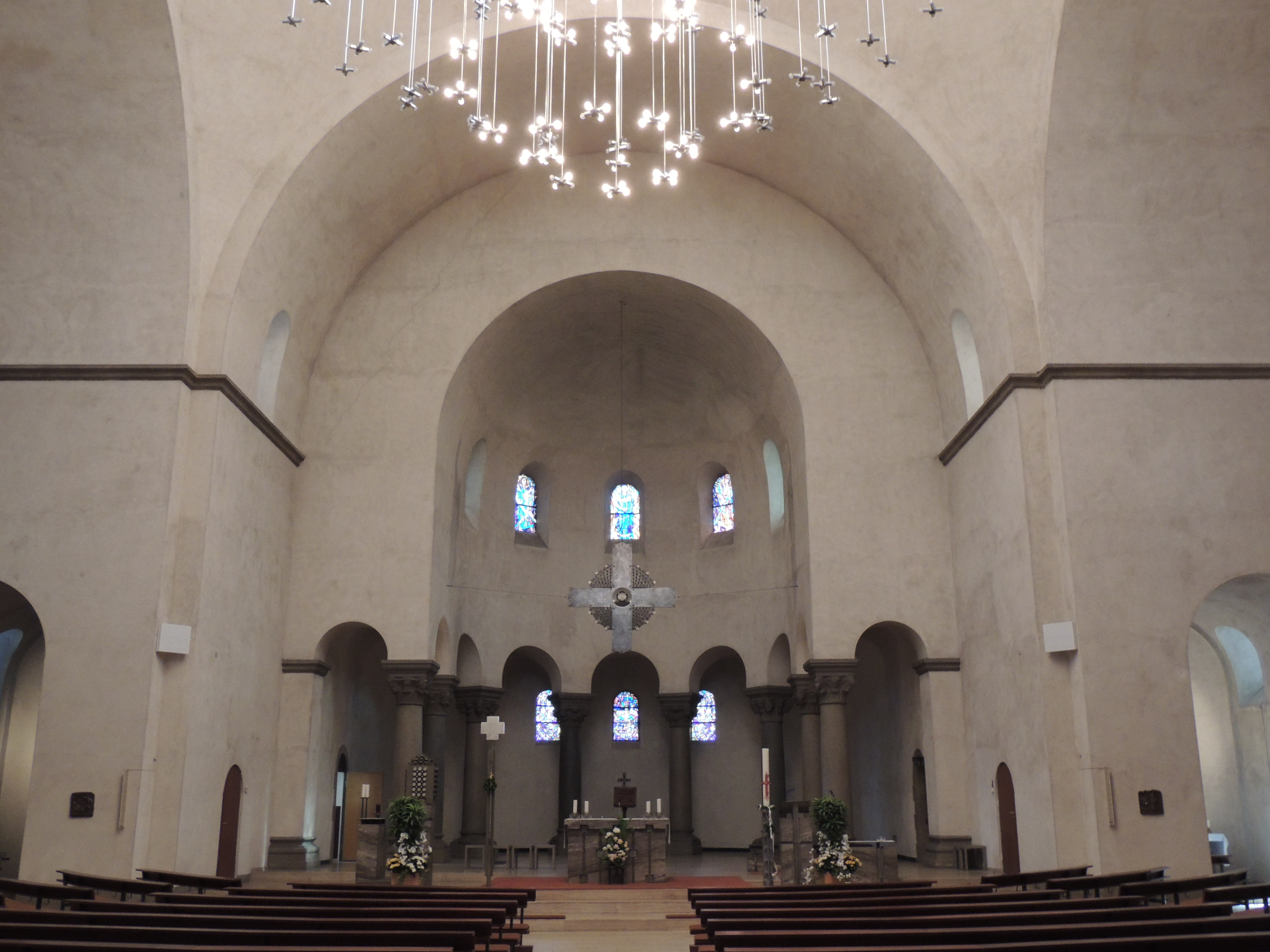 Interior of the St. Bernhard church in Frankfurt am Main-Nordend, in May 2014